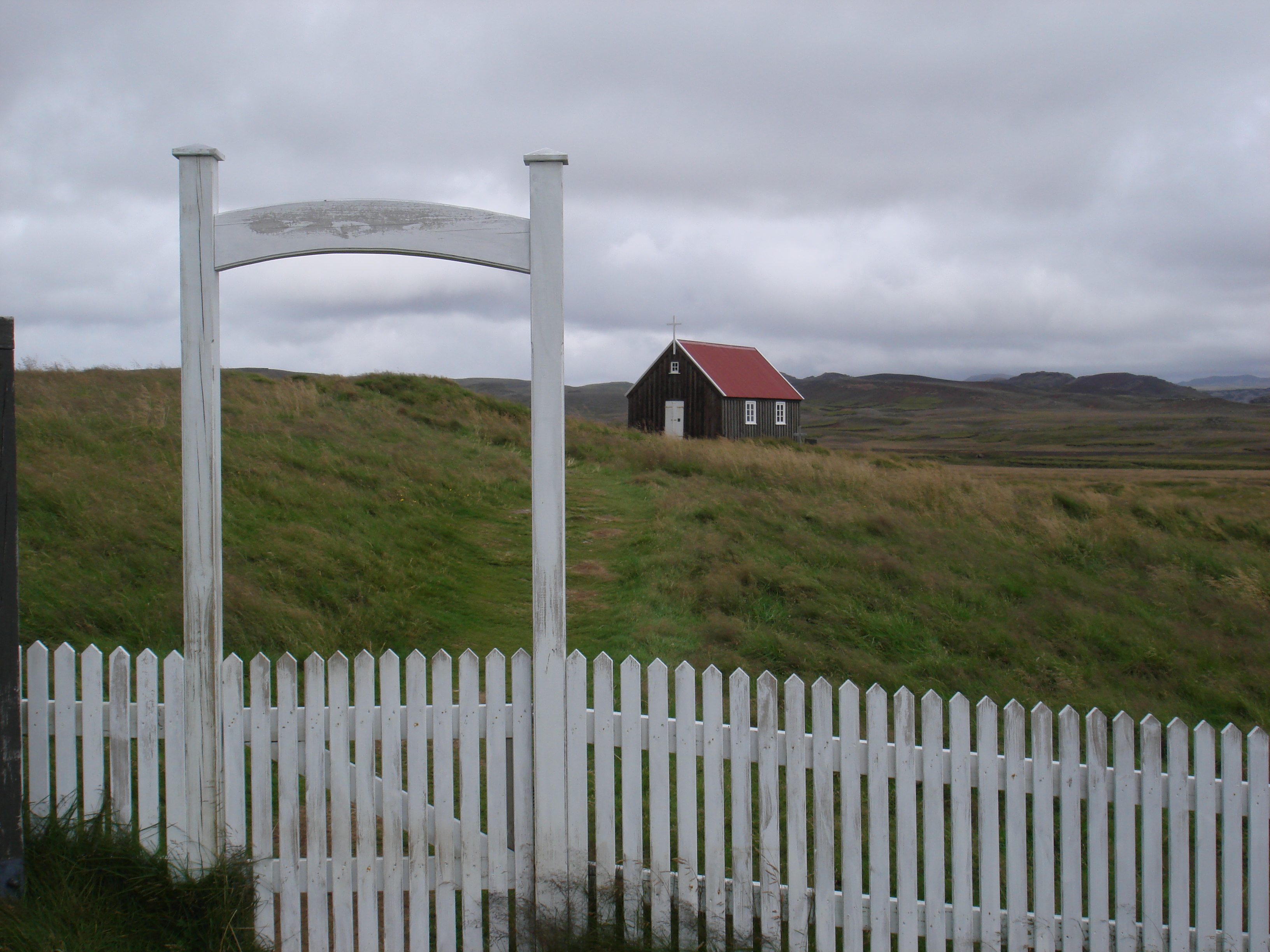 Church in Krisuvik, Reykjanes peninsula, Iceland